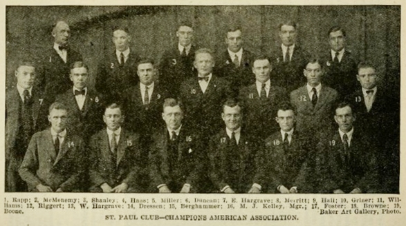 The 1920 St. Paul Saints, a minor league baseball team from St. Paul, Minnesota